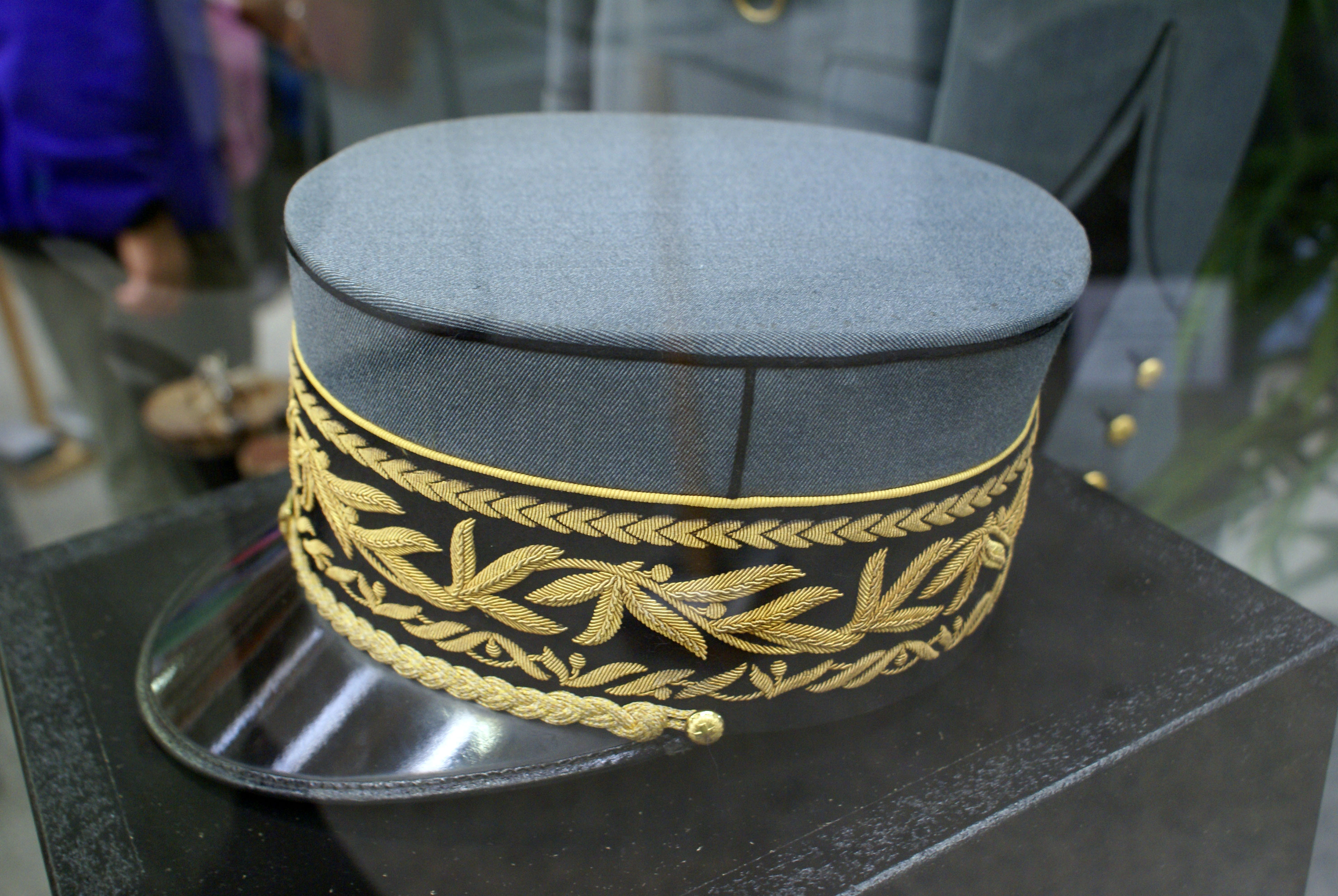 Swiss Army. Original uniform képi, commander in chief of the Army 1939-45, General Henri Guisan. Swiss Army Museum.